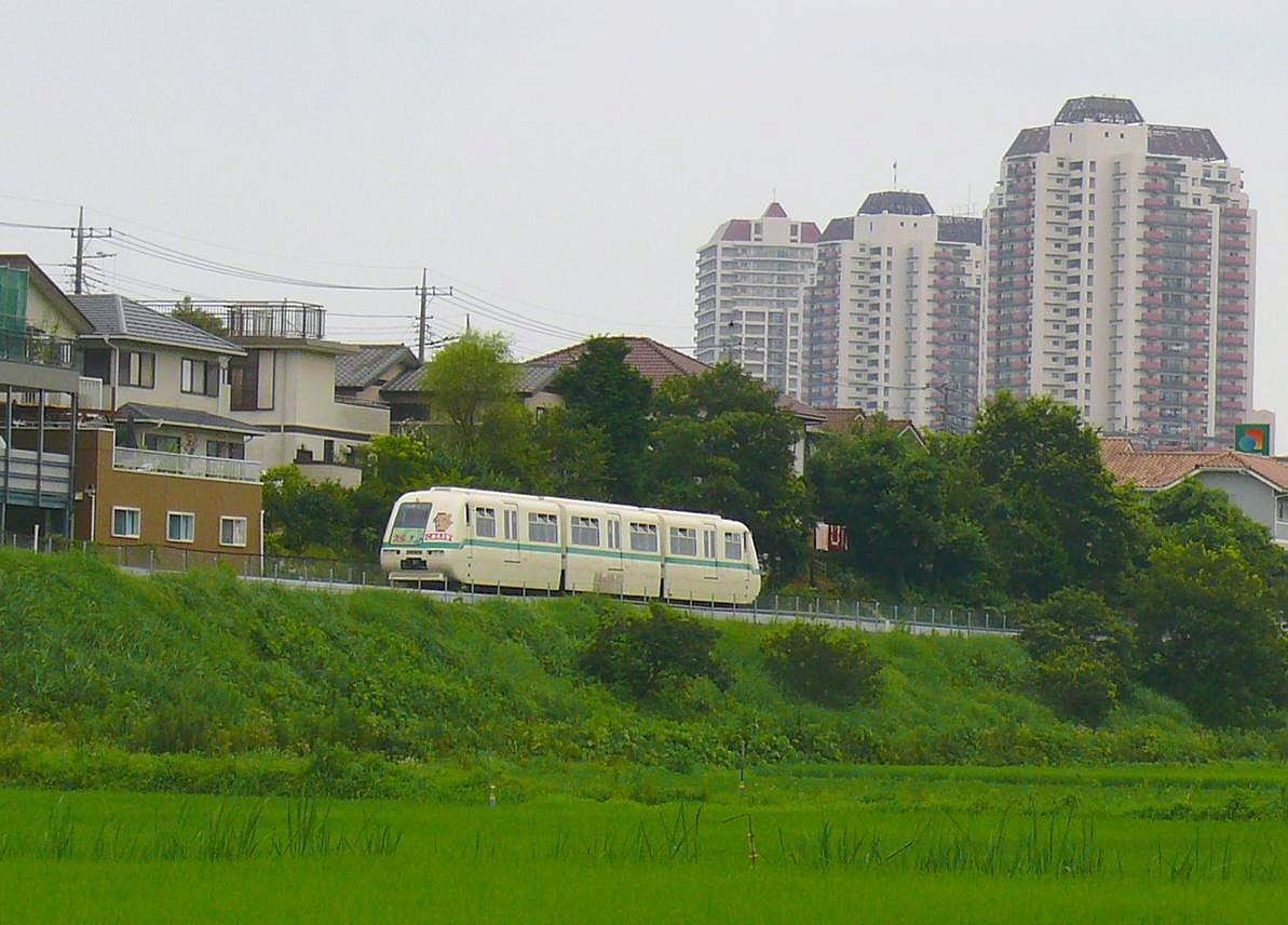 This image is scenery of the Yamaman-Yukarigaoka Line. Railway(Japan). Taking a picture from the public road between stations of Kouen station and Joshidai.